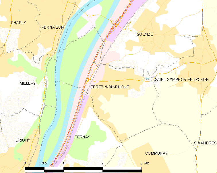 Map of French municipality